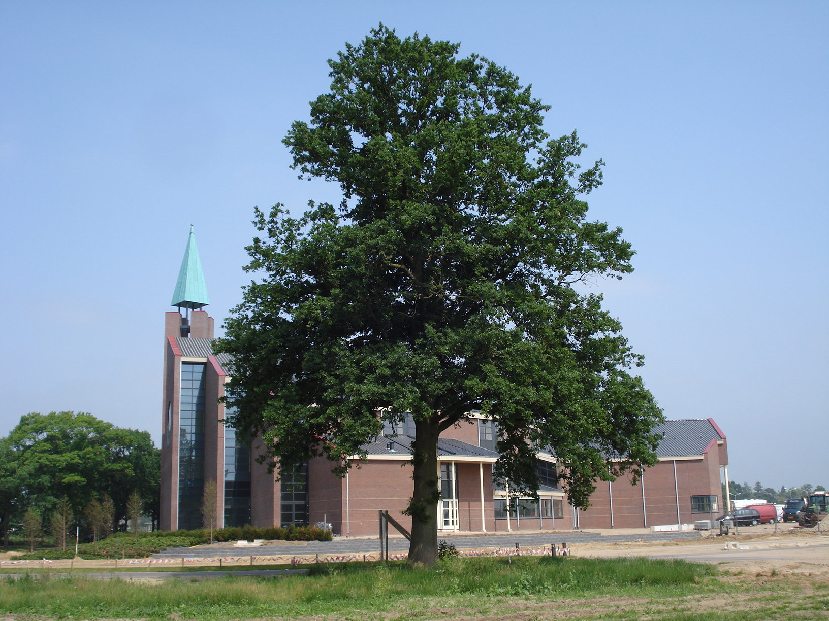 Kerkgebouw Gereformeerde Gemeente in Nederland te Barneveld tijdens de bouw in 2008